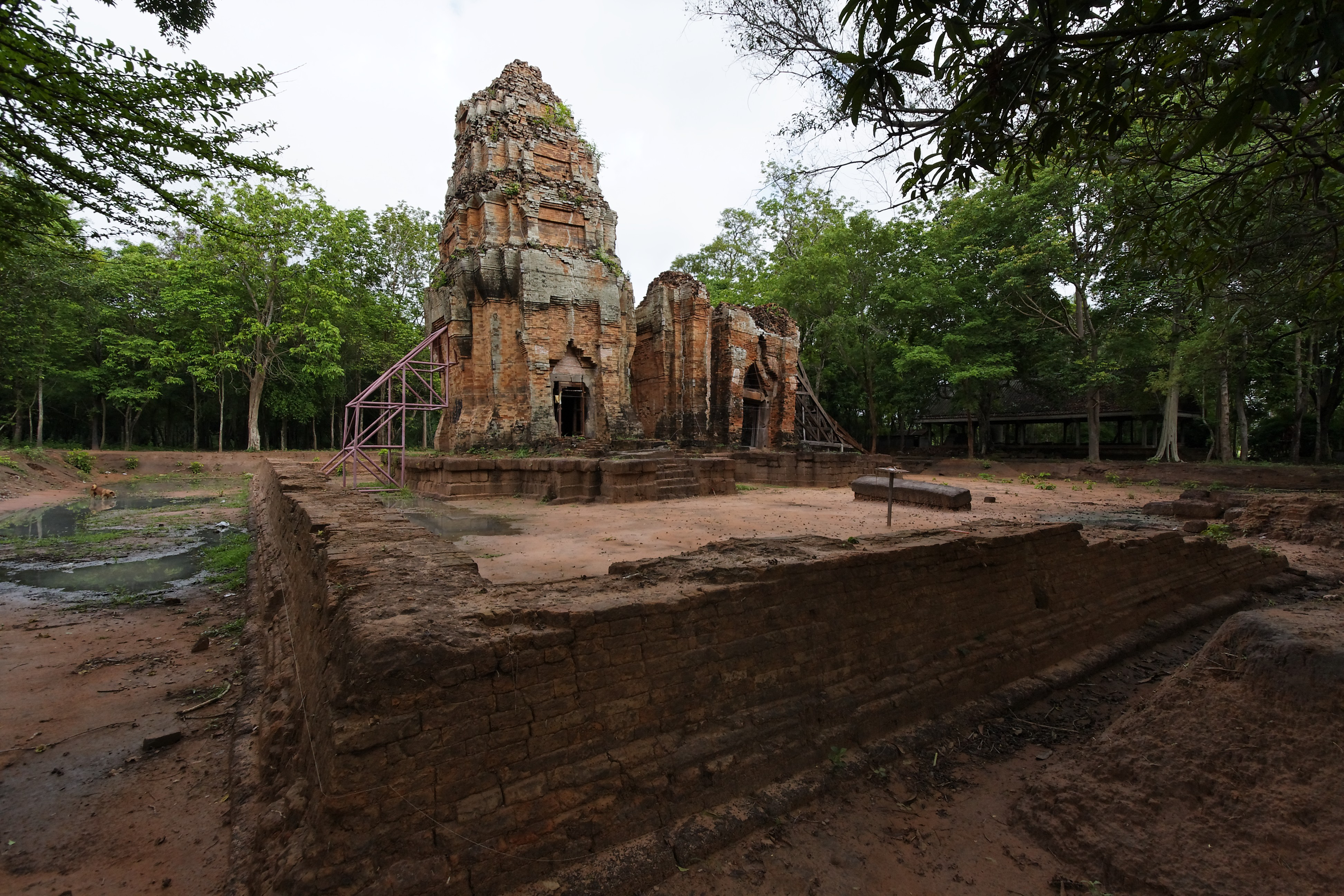 Prasat Yai Ngao, Thailand